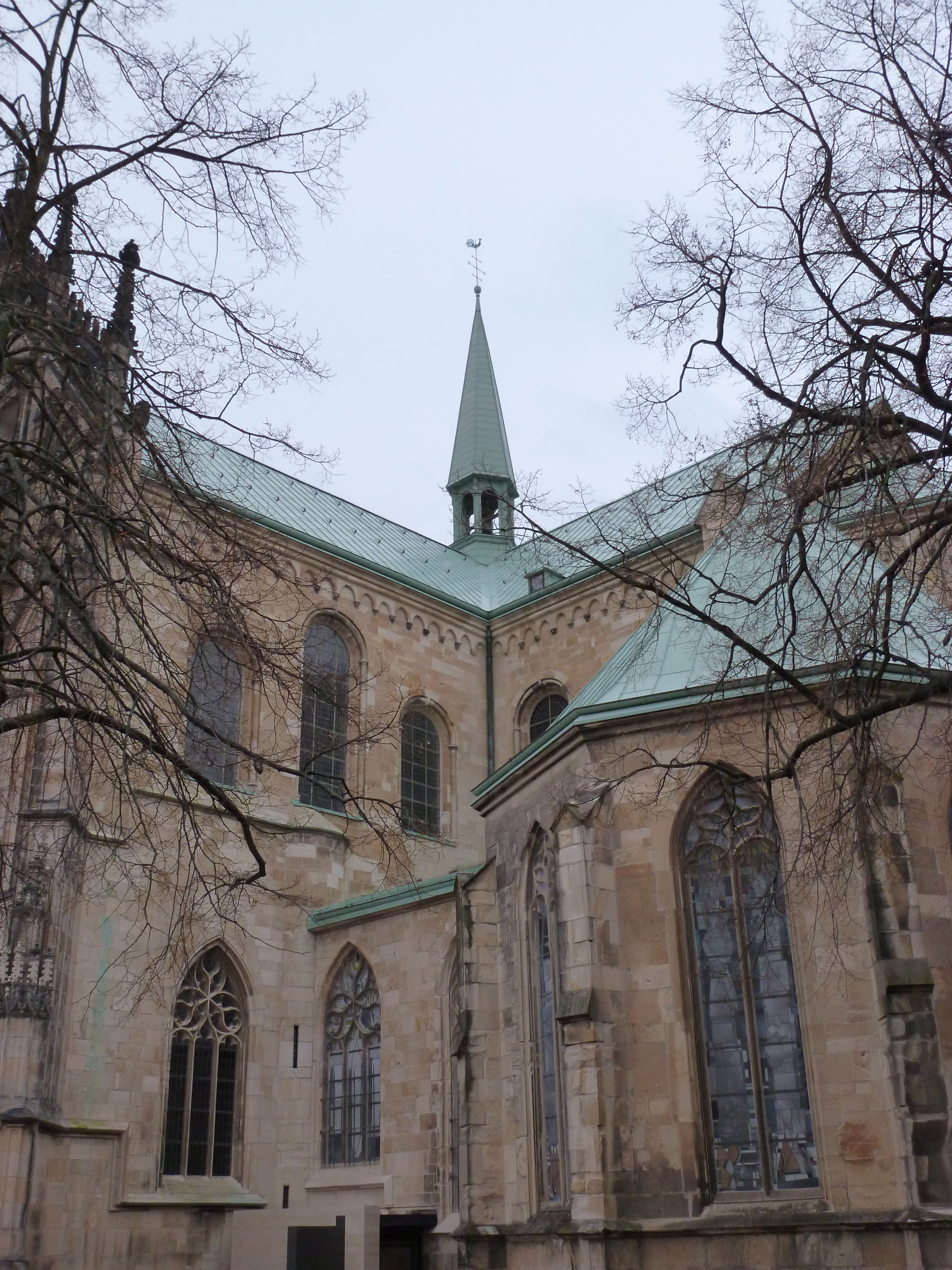 Detailansicht Paulusdom von außen